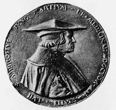 Ambrosius Jung (senior) (1471 Ulm – 1548 Augsburg) was a German doctor & professor Author: Christop Weiditz (1528)